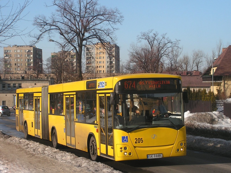 Jelcz M181MB/3 Tantus low entry bus number #205 (reg. SK 9448E) from PKM Katowice. Year of production: 2006.